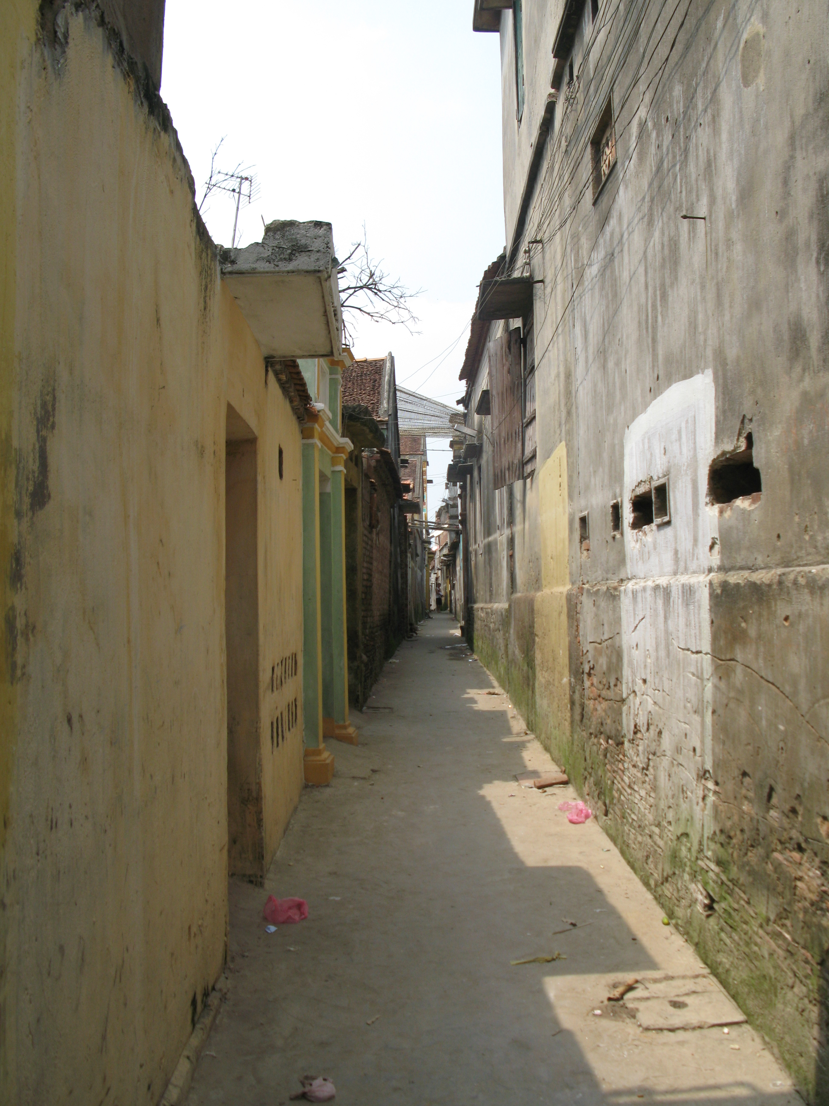 The typical alley of Tho Ha village, Bac Giang province